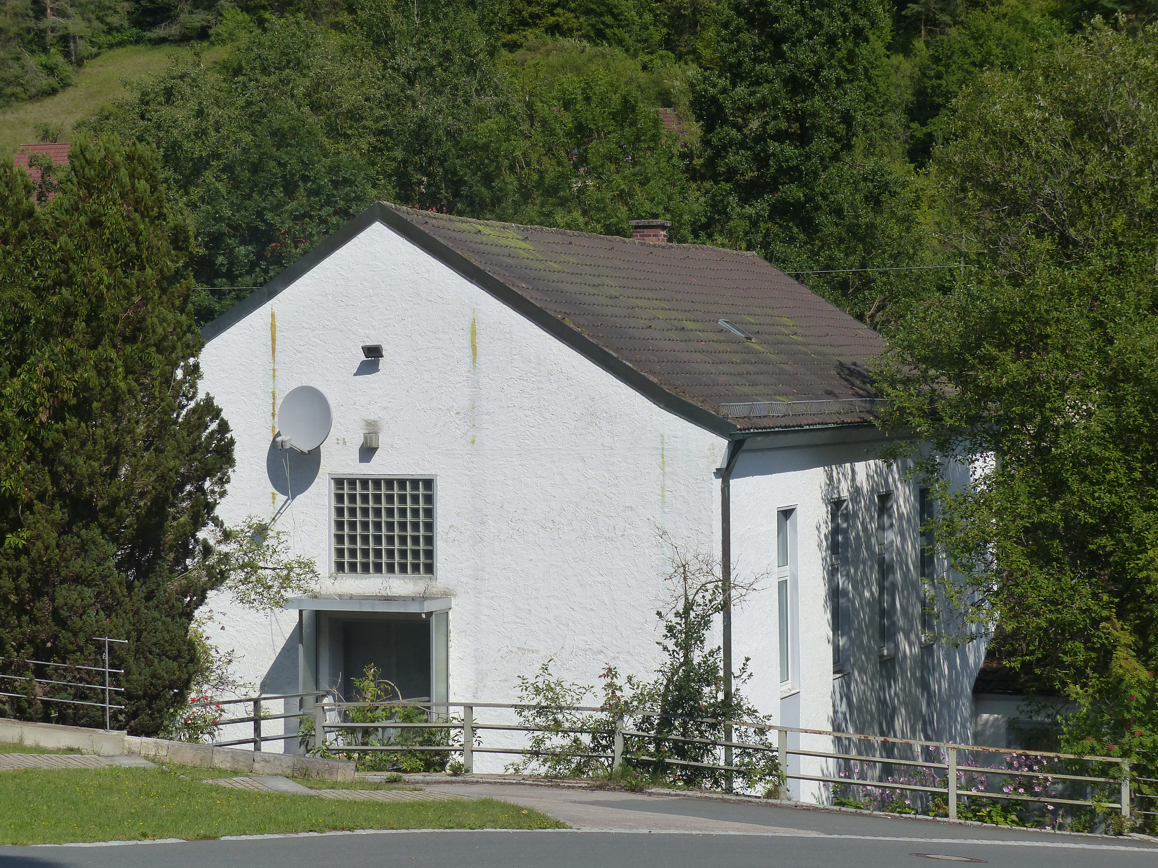 A former Electrical substation in Untertrubach, a district of the municipality of Obertrubach.